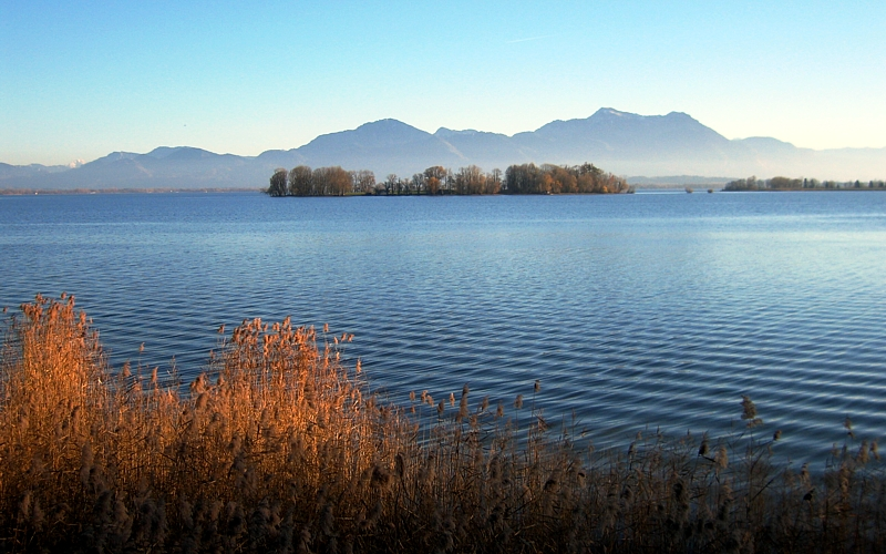 Chiemsee (Bavaria, Germany) and Chiemgau Alps. First considerable peak from right is Zwölferspitz, then Hochgern, Weißgrabenkopf (last of first range), then Hochfelln, Rauschberg and Zenokopf